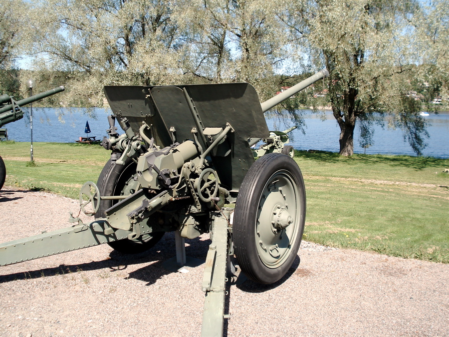 Soviet 76.2 mm M1936 F-22 gun, displayed in Hämeenlinna Artillery Museum. The barrel of this gun was manufactured in 1937 and the gun-carriage in 1939. Right behind is is the improved F-22 USV gun. Photo taken on June 18, 2006. Source: Photo by me, User:Balcer.